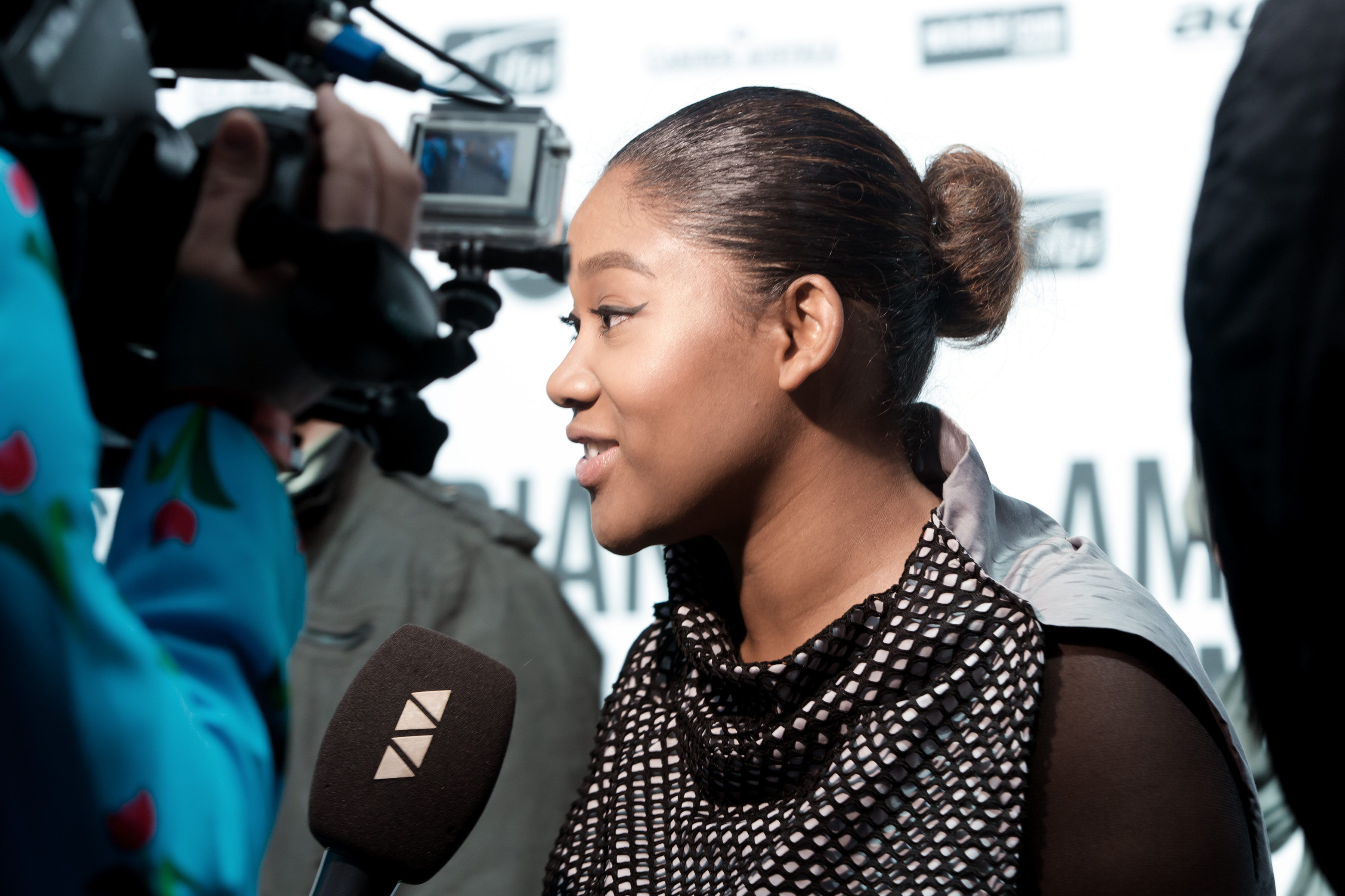 Rose May Alaba at the Amadeus Austrian Music Award 2015 at Volkstheater in Vienna